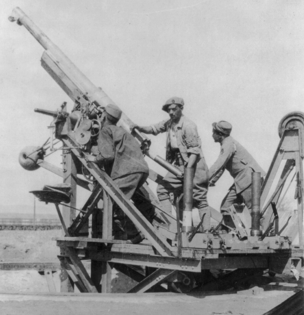 Photograph showing French gunners with 75 mm anti-aircraft gun, Salonika Front, World War I. See also : File:French 75 mm AA gun Salonika 1917 IWM HU 091353.jpg